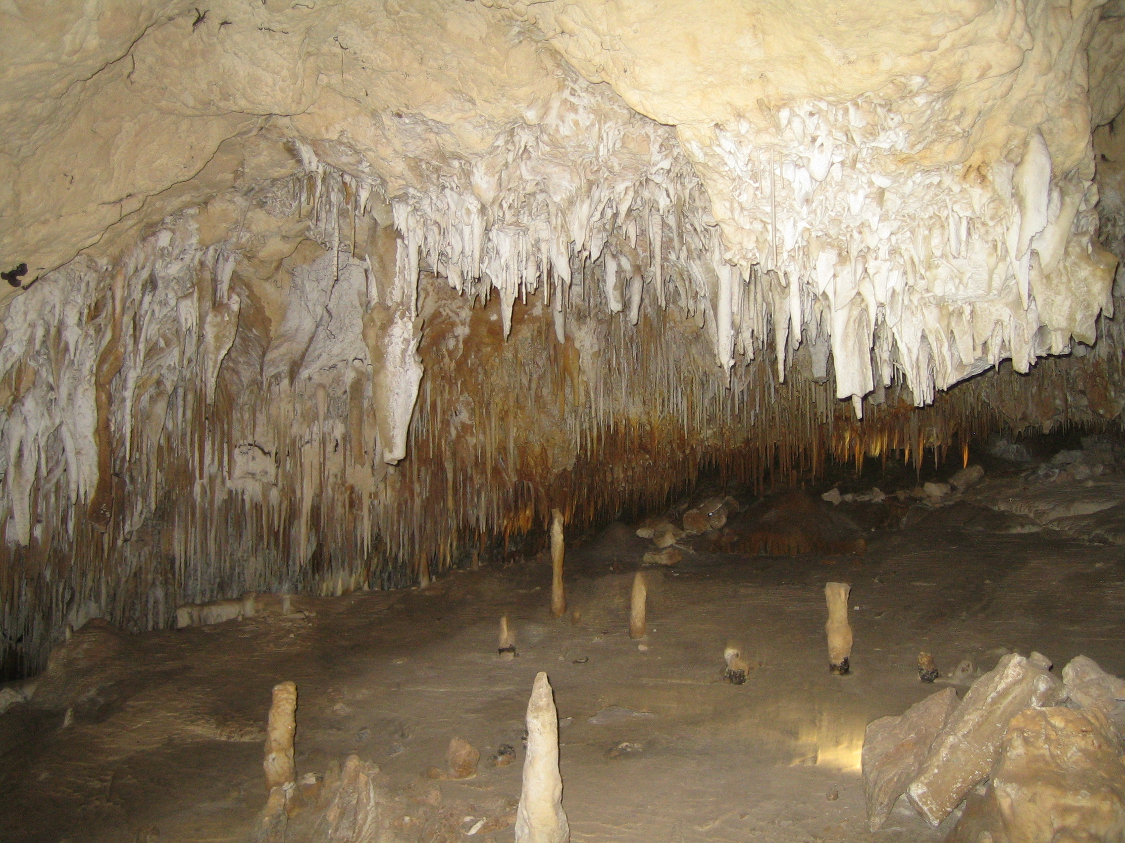 nside Kelly Hill caves.